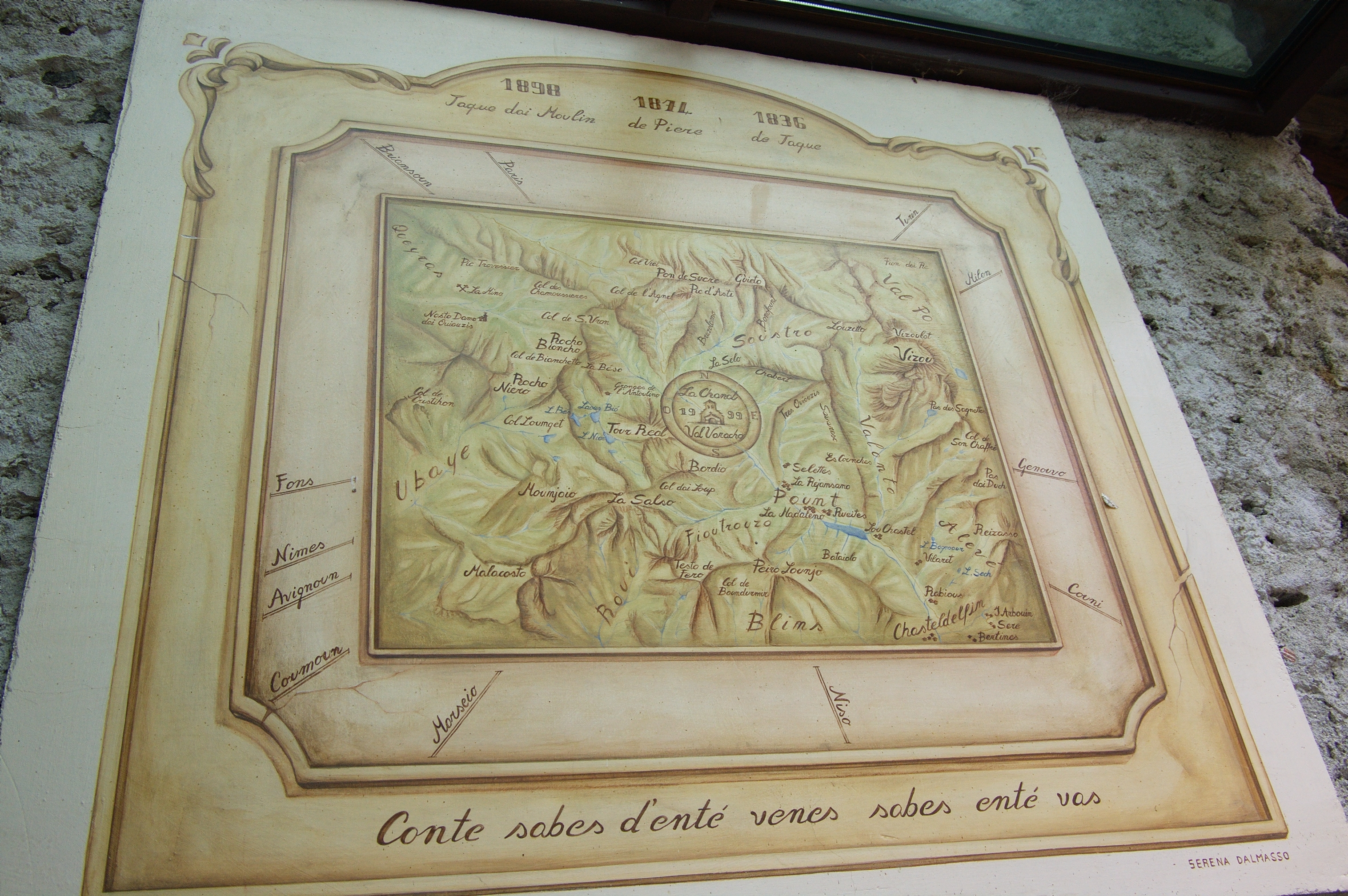 A map of the Varaita Valley (Piedmont, Italy) with text in Occitan language. The lower line tells: "When you know where are you coming from you know where are you going".